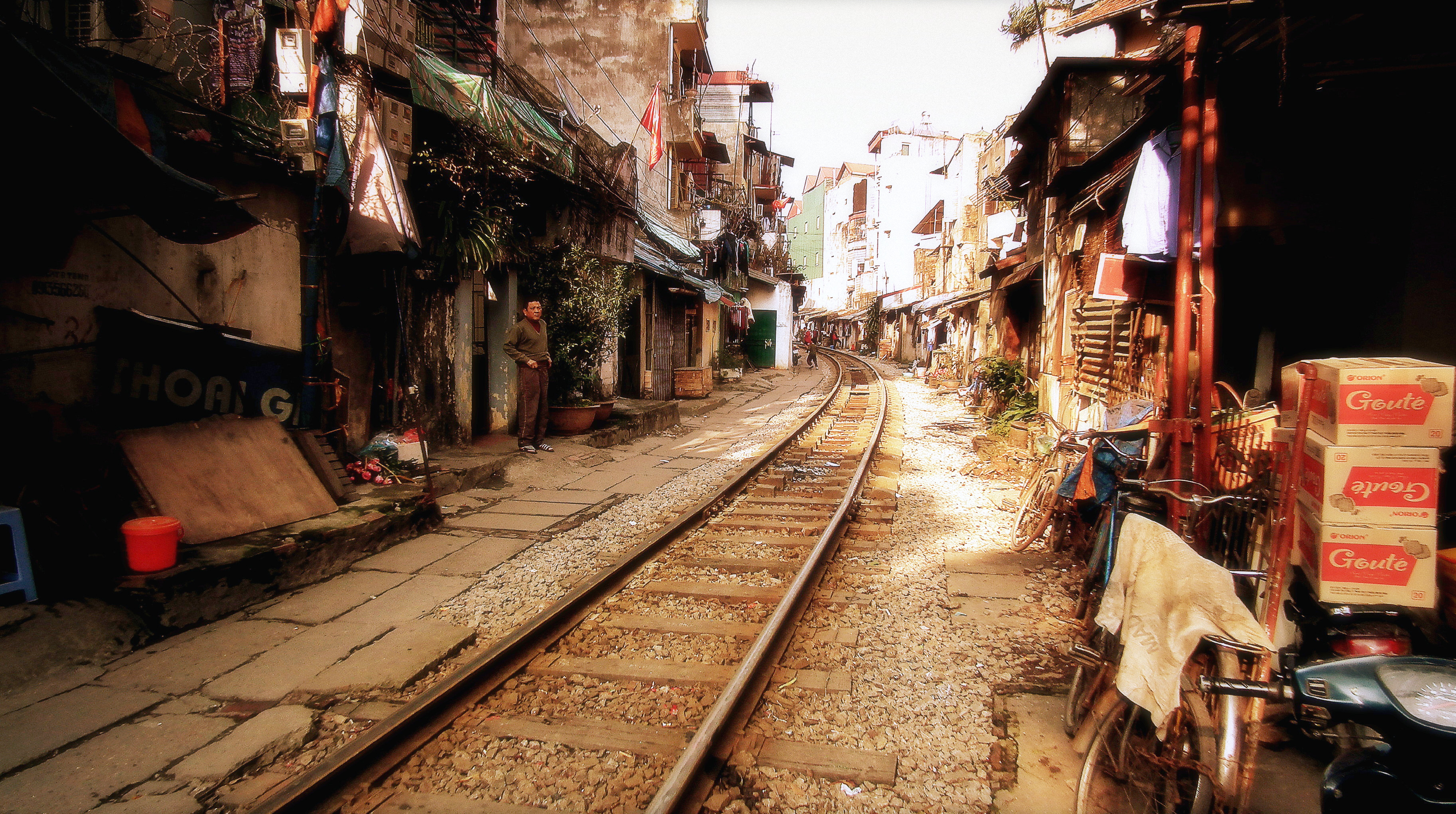 RAILWAY LINE FROM GA HANOI TO GA LONG BIEN AND LONG BIEN BRIDGE THROUGH HANOI